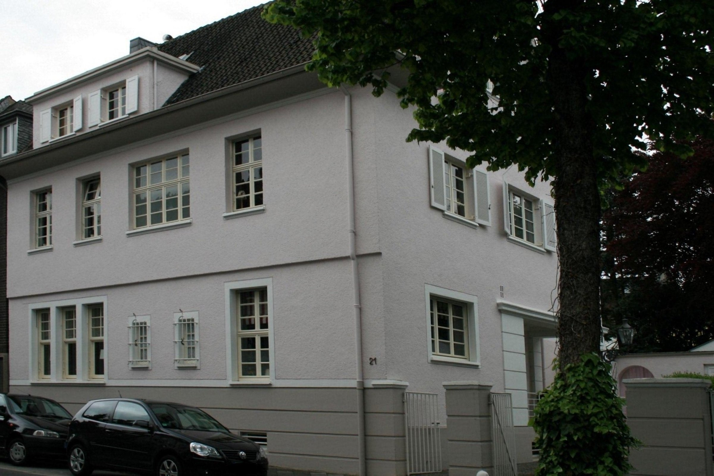 Cultural heritage monument No. B 155 in Mönchengladbach